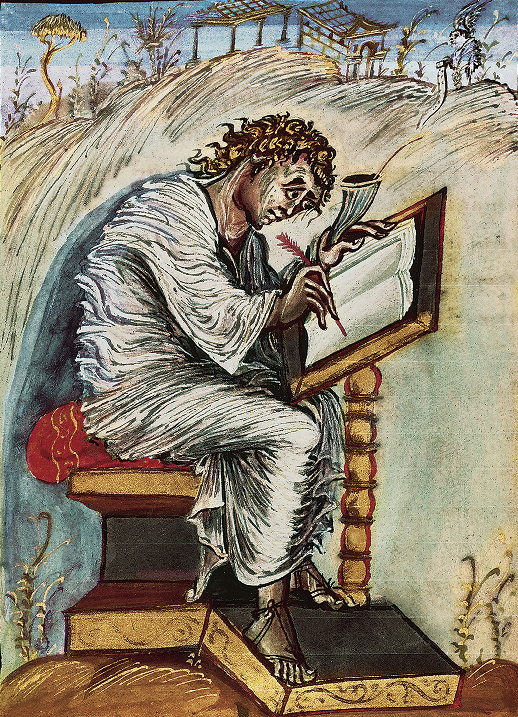 This illustration of Saint Matthew, from the 9th century Ebbo Gospels in the Municipal Library, Épernay, France, depicts him writing a Gospel.